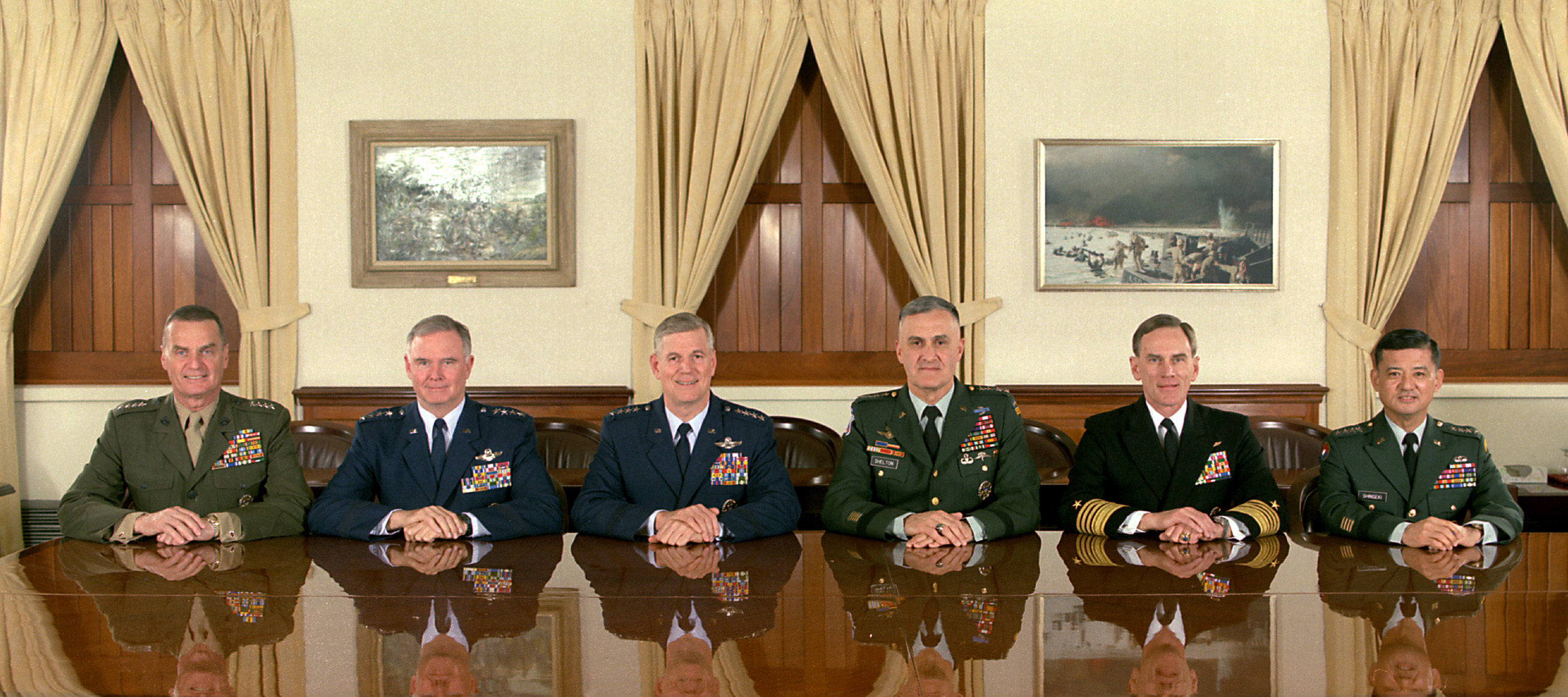 The Joint Chiefs of Staff photographed in the Joint Chiefs of Staff Gold Room, more commonly known as The Tank, in the Pentagon on April 6, 2000. From left to right are: U.S. Marine Corps Commandant Gen. James L. Jones Jr., U.S. Air Force Chief of Staff Gen. Michael E. Ryan, Vice Chairman of the Joint Chiefs of Staff Gen. Richard B. Myers, U.S. Air Force, Chairman of the Joint Chiefs of Staff Gen. Henry H. Shelton, U.S. Army, U.S. Navy Chief of Naval Operations Adm. Jay L. Johnson, and U.S. Army Chief of Staff Gen. Eric K. Shinseki.